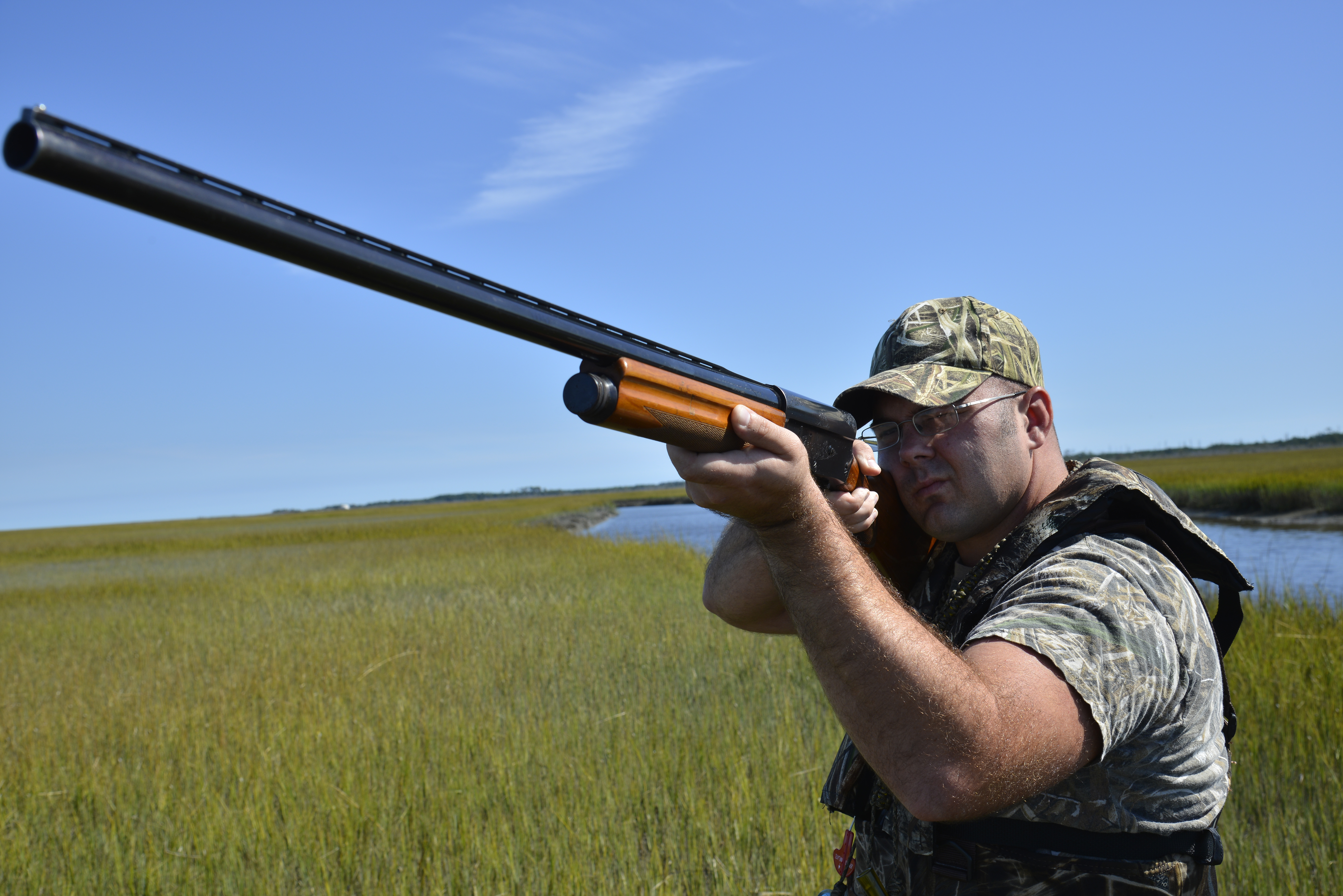 Coast Guard Petty Officer 2nd Class Aaron Baker, an avid duck hunter, aims his shotgun over the waterways near Wachapreague, Virginia, Sept. 26, 2016. Baker demonstrated that his PFD did not interfere in any way with his ability to quickly bring the gun to his shoulder. (U.S. Coast Guard photo by Petty Officer 2nd Class Nate Littlejohn/Released) Unit: U.S. Coast Guard District 5 DVIDS Tags: North Carolina; safety; Virginia; Baker; PFD; cold water; lifejacket; PEPIRB; PLB; Wachapreague; waterfowl hunting; Station Wachapreague; cold water survival; duck hunting; personal flotation device; Duck hunter; cold water kills